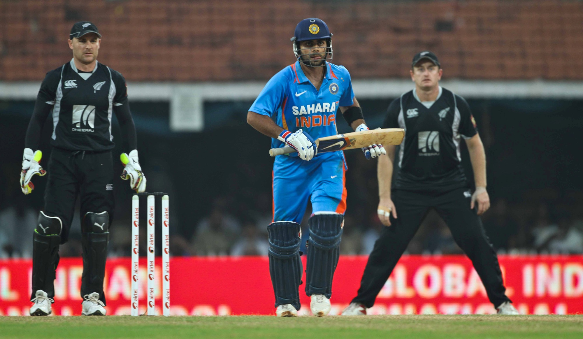 Virat Kohli Batting.